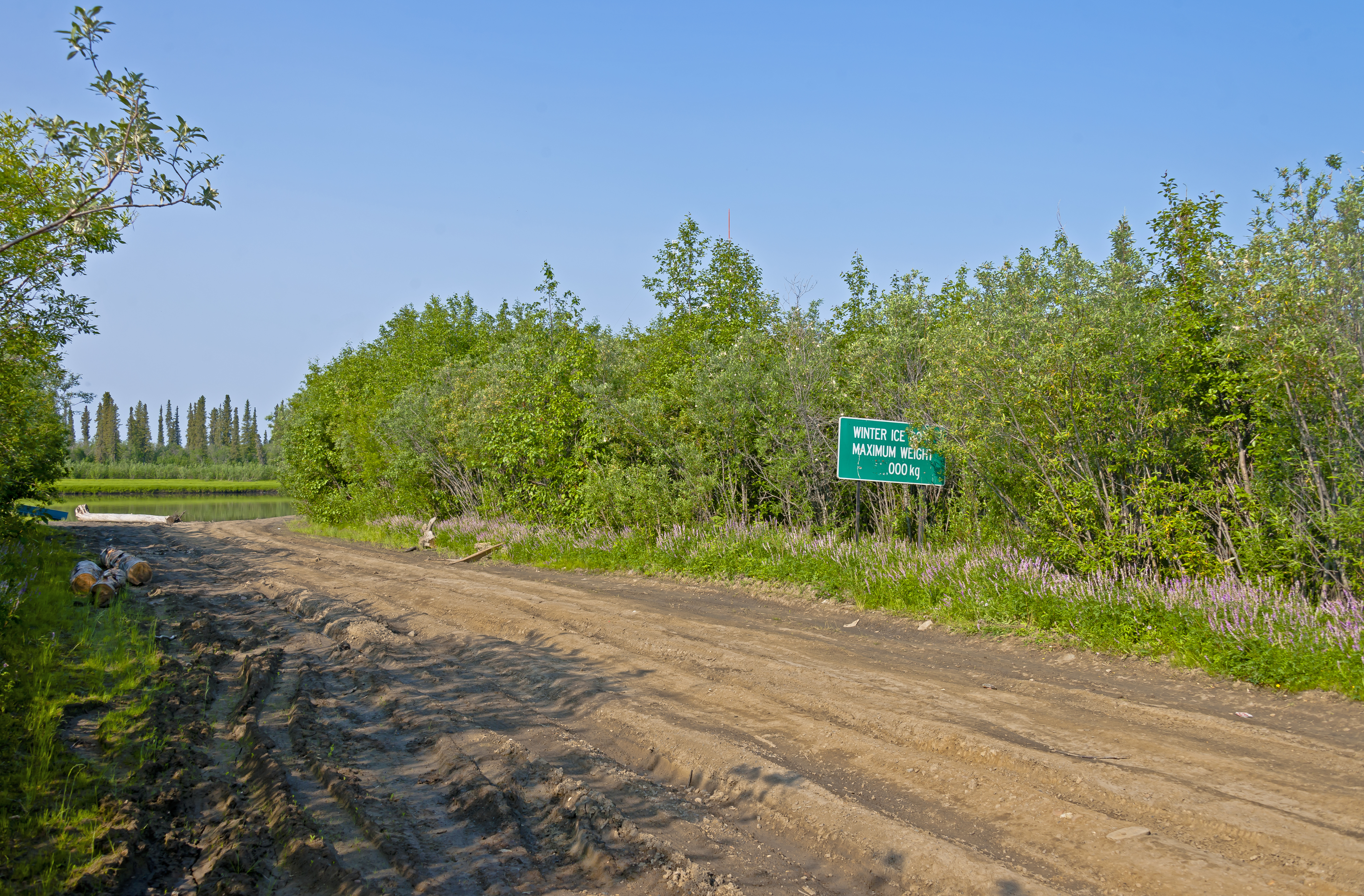 End of Carn Street at western channel of Mackenzie River, south of Inuvik, NT, Canada. Sign at right indicates wintertime weight limits on the Tuktoyaktuk Winter Road, which goes over the river ice to that community